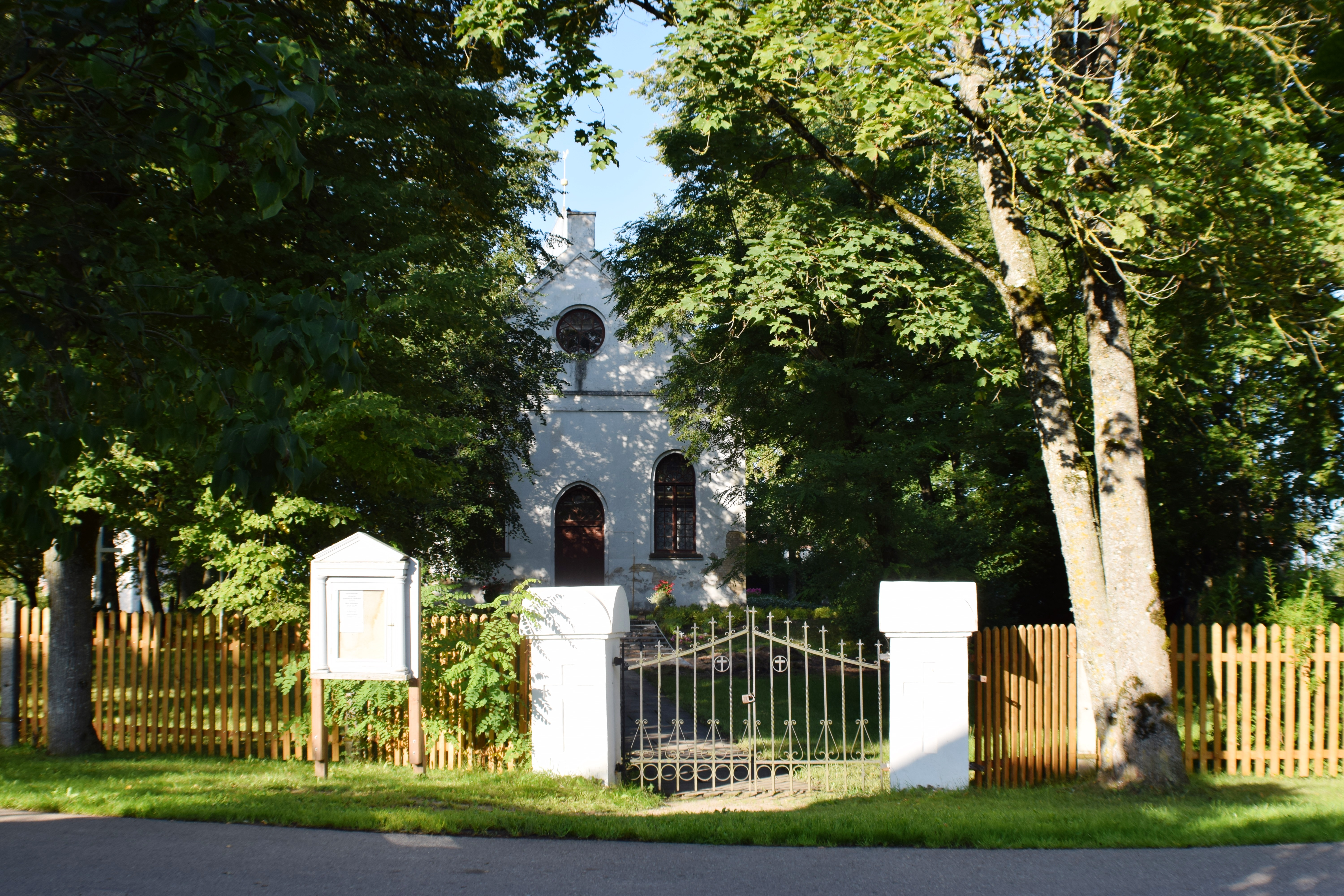 Auce (Auces novads)